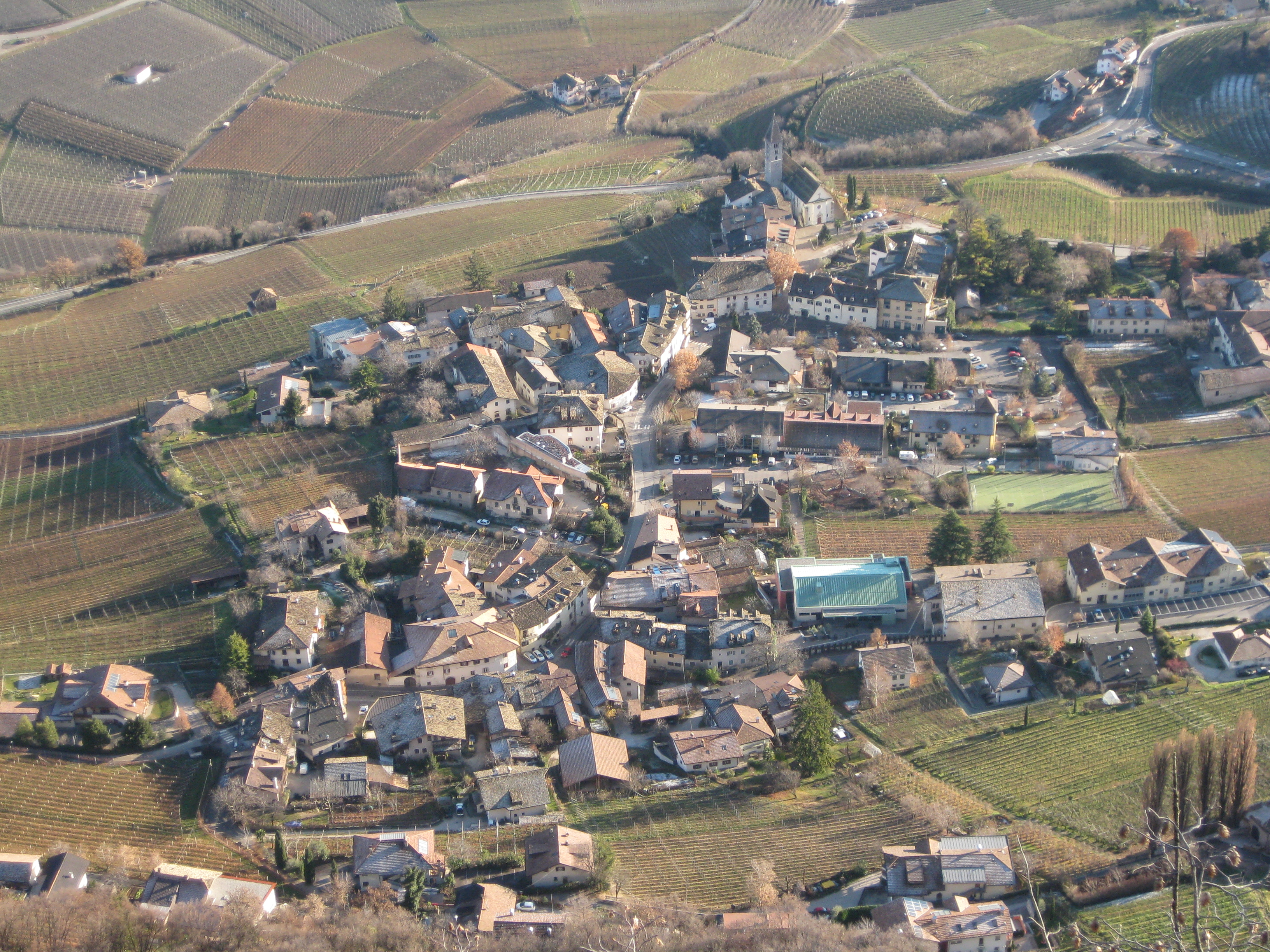 Kurtatsch as seen from the Sitzkofel in Graun